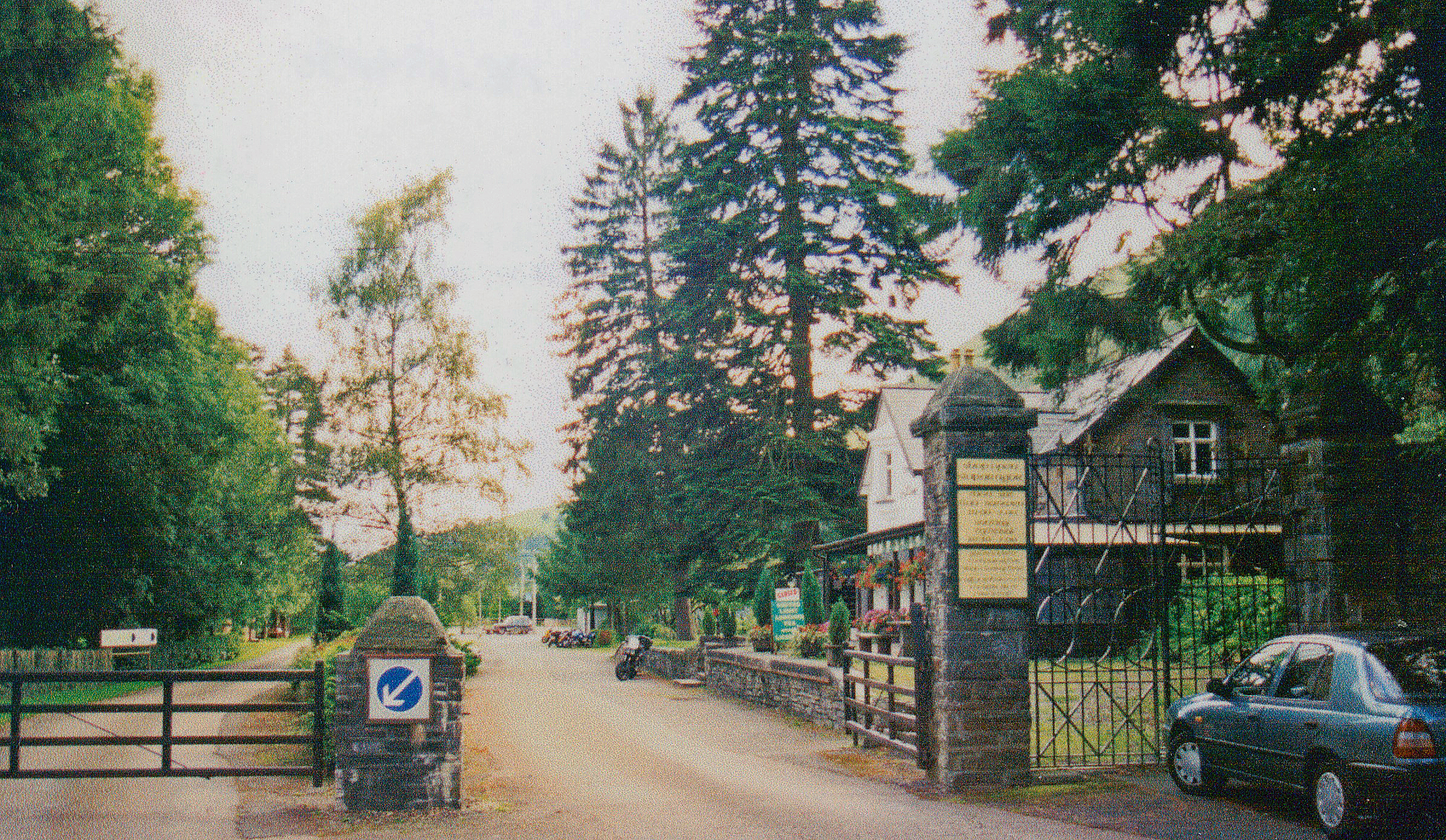 Site of former Dinas Mawddwy station, 1999. View SW from the A470(T) road down the Afon Dyfi valley, this is the terminus of the ex-Cambrian (Mawddwy Light) Railway from Cemmaes Road near Machynlleth. The line ceased to carry passengers from 1/1/31 (goods from 1/7/51), but was briefly restored as a 2 ft. gauge line 1975-77. The building is now a restaurant